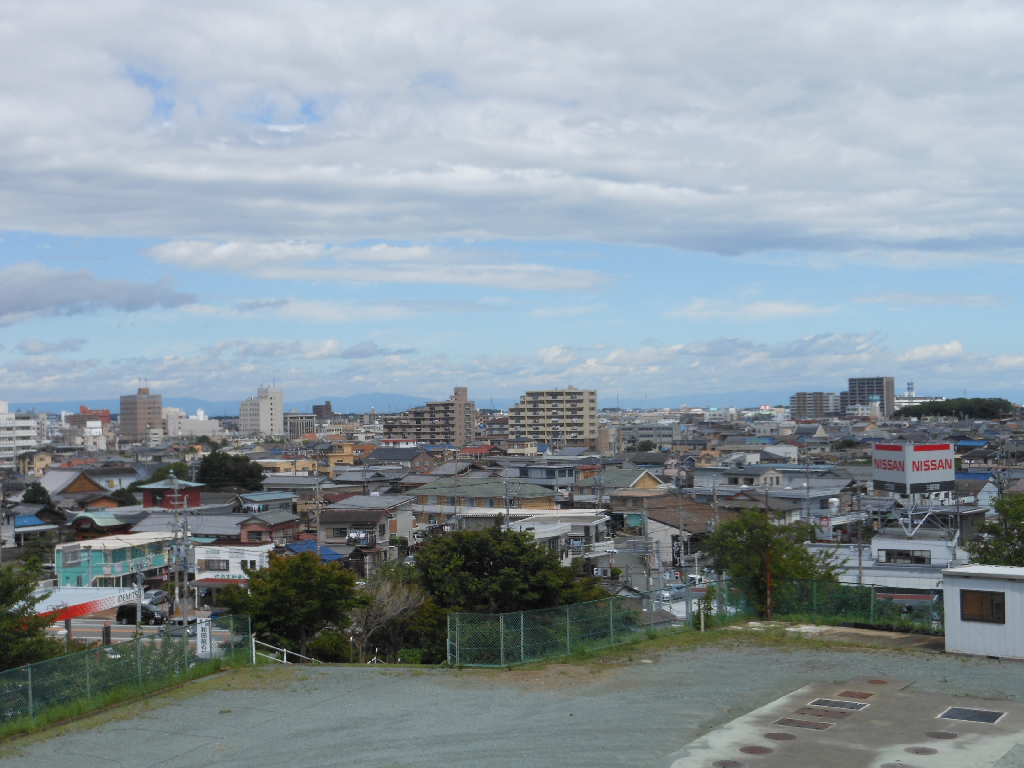 This is a photo of Central Ise, Mie, Japan. It was taken from Kakuregaoka Ruins Park.